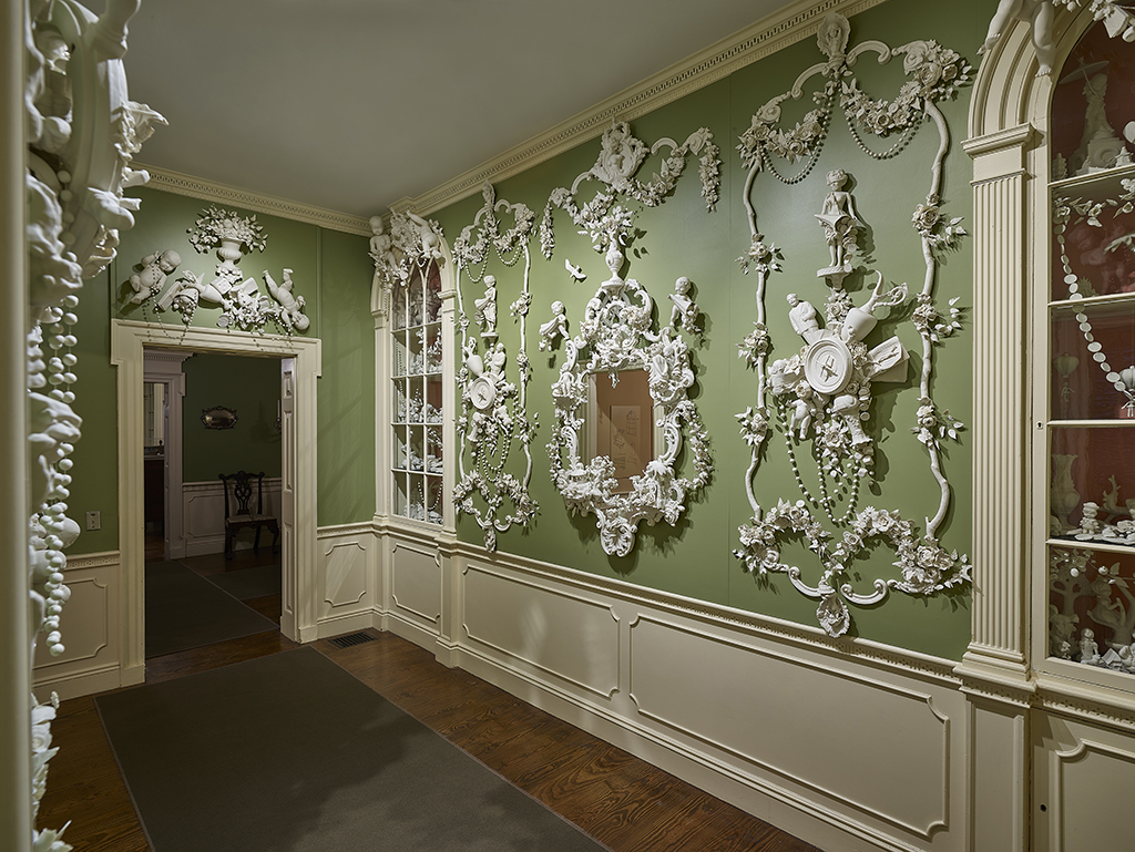 "The room’s ornate motifs evoke both high rococo art and low 1950’s kitsch. Comprised of nearly 10,000 elements that are hand made or cast entirely in porcelain from her collection of flea-market trinkets and figurines, "